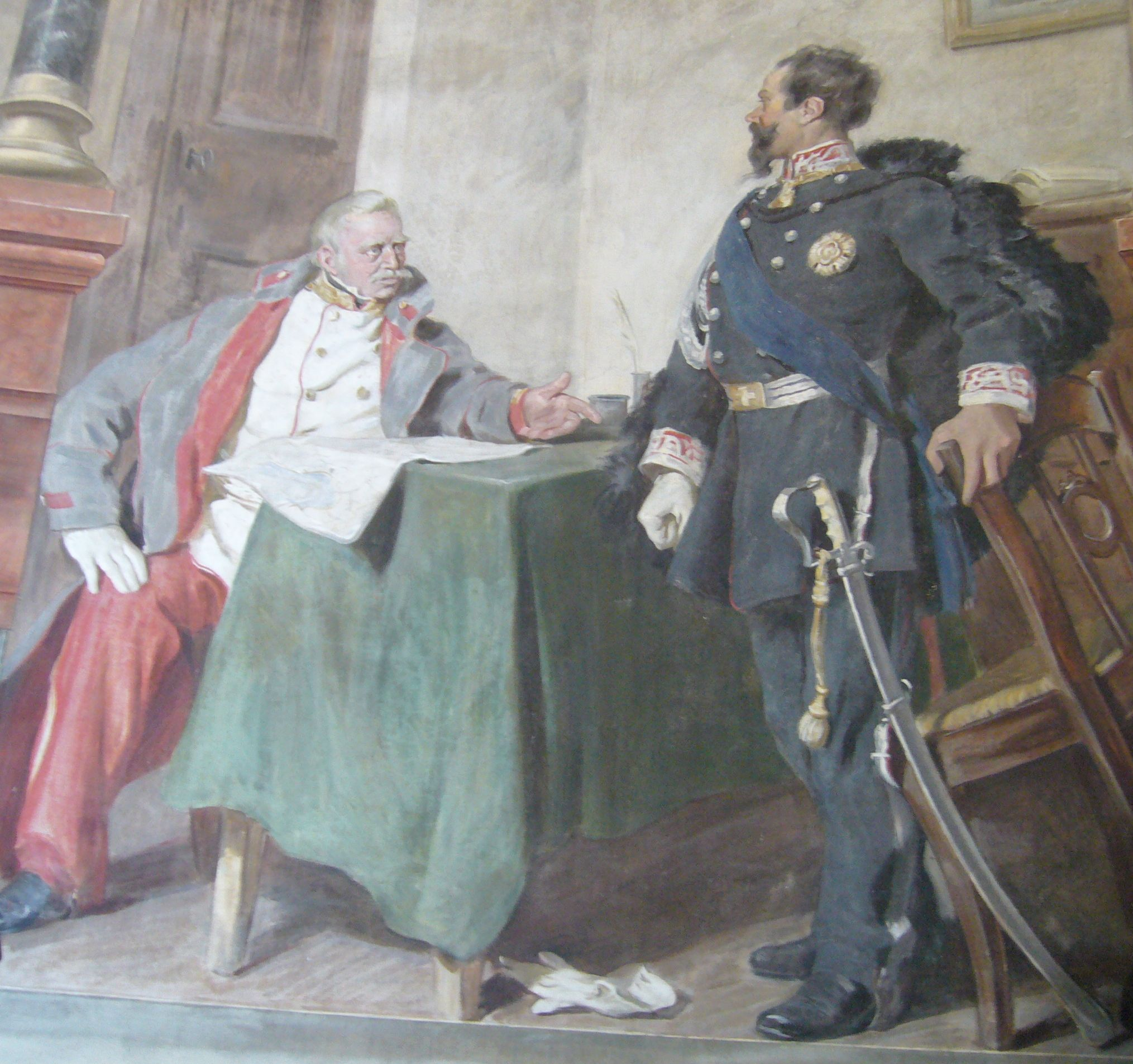 Fresco in the Museum of the Tower of San Martino della Battaglia showing the meeting of Vignale of March 24, 1849 between Radetzky and the new king of Sardinia Vittorio Emanuele II.